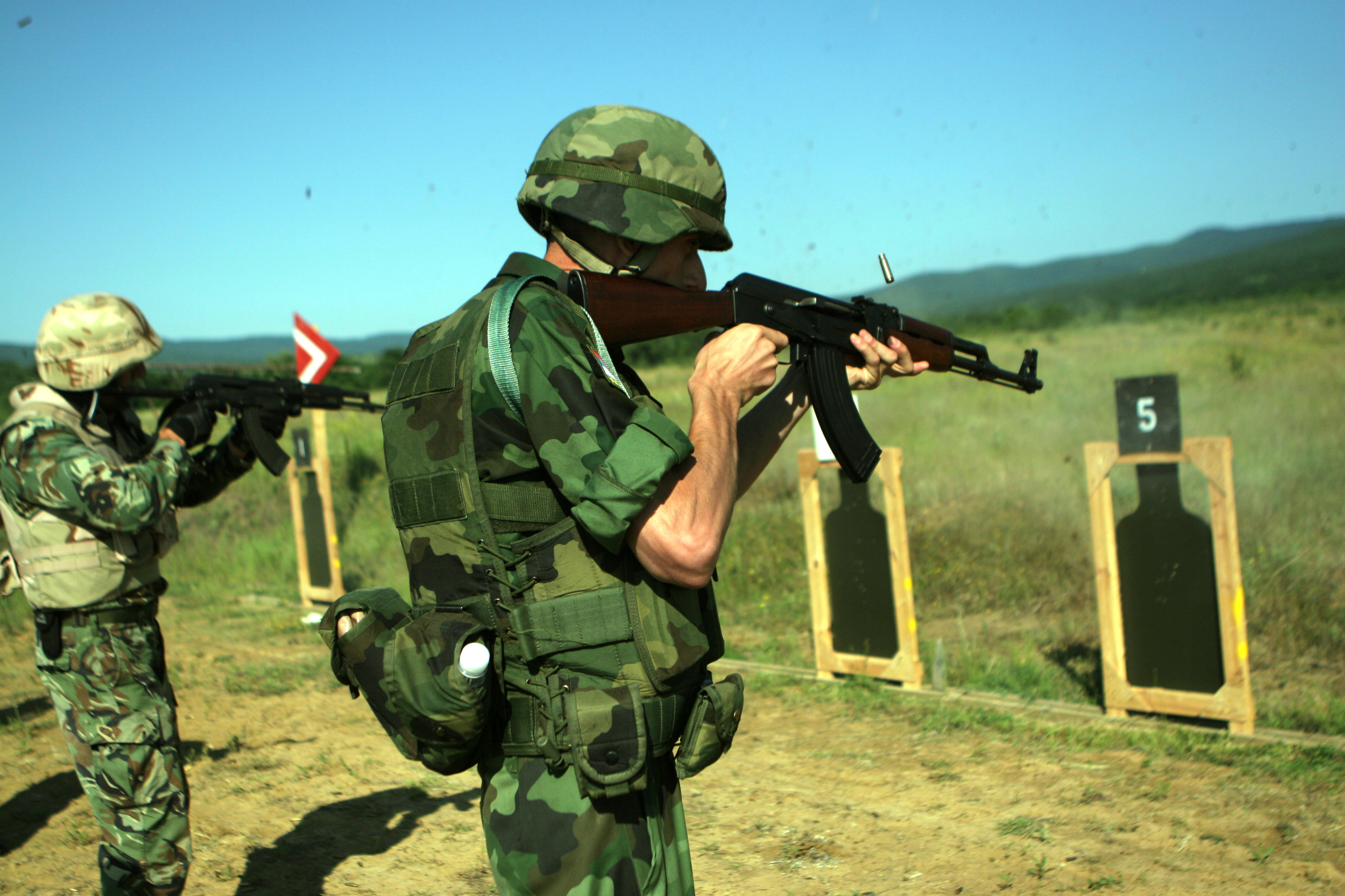 A Serbian infantryman shoots Table 3 of the Marine Corps Combat Marksmanship Course for his first time alongside a Bulgarian soldier while participating in Black Sea Rotational Force 11 to improve close-quarters shooting at a distance of 25 meters or less. The Ground Combat Element of BSRF-11 conducted counterinsurgency and peacekeeping operations with Bulgarians and Serbians to work with foreign soldiers and build the military capacities of partner nations. Unit: U.S. Marine Corps Forces, Europe and Africa DVIDS Tags: counterinsurgency; USMC; Reserves; COIN; United States Marine Corps; terrorism; MarForRes; Marine Corps; Marines; MarForEur; Marine Forces Europe; BSRF; Marine Forces Reserve; overseas contingency operations; CMP; combat marksmanship; Black Sea Rotational Force 11; PKO; BSRF-11; Peace keeping operations